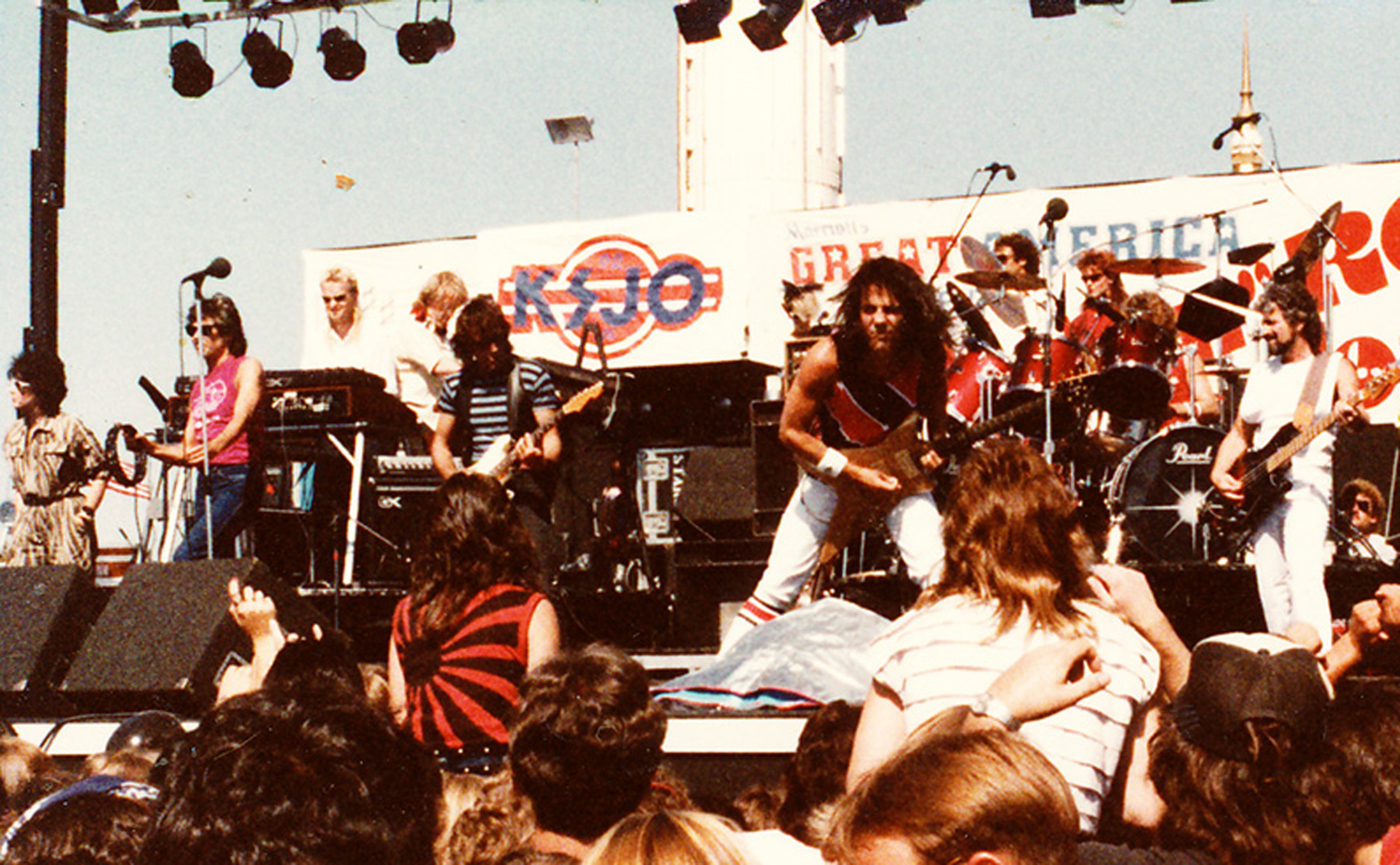 Starship in 1985 at Great America (l-r: Grace Slick, Mickey Thomas, Peter Wolf, Paul Kantner, Pete Sears, Craig Chaquico, Donny Baldwin and David Freiberg)